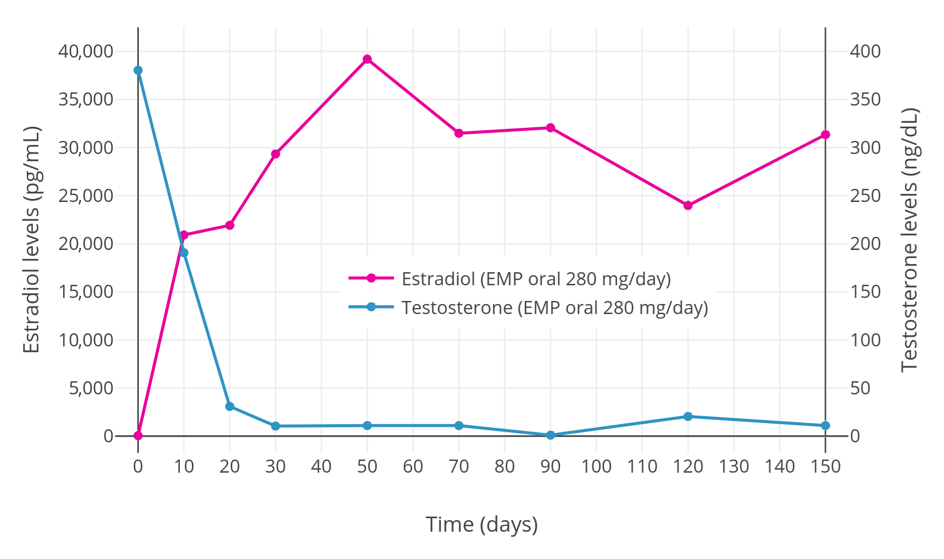 Levels of estradiol (pg/mL) and testosterone (ng/dL) during therapy with oral estramustine phosphate 140 mg twice a day in men with prostate cancer. Source of the values: (February 2001). "Necessity of re-evaluation of estramustine phosphate sodium (EMP) as a treatment option for first-line monotherapy in advanced prostate cancer". Int. J. Urol. 8 (2): 33–6. PMID 11240822.